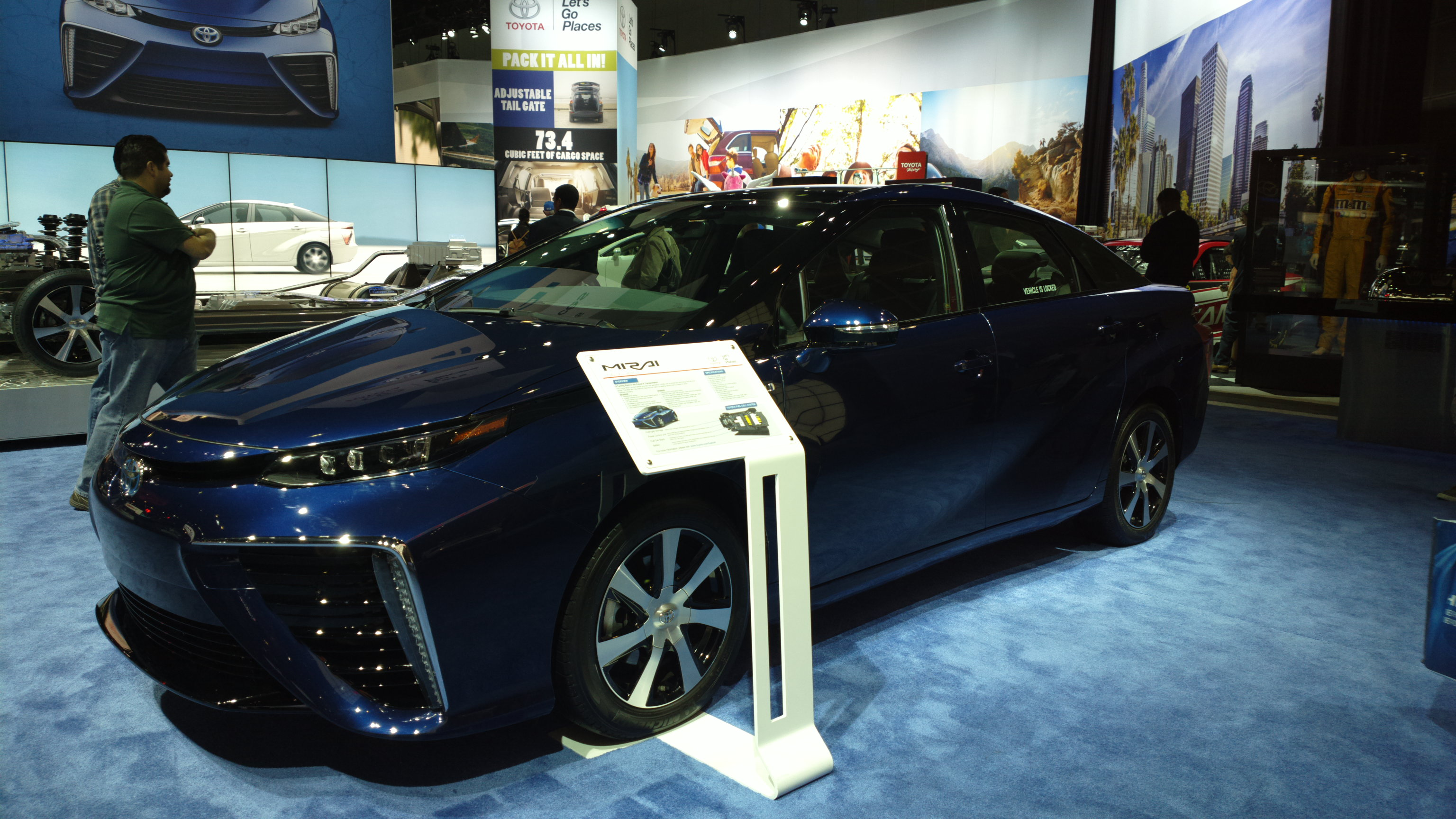 Toyota Mirai exhibited at the 2014 Los Angeles Auto Show